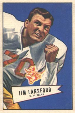 American football player Jim Lansford on a 1952 Bowman Large card.